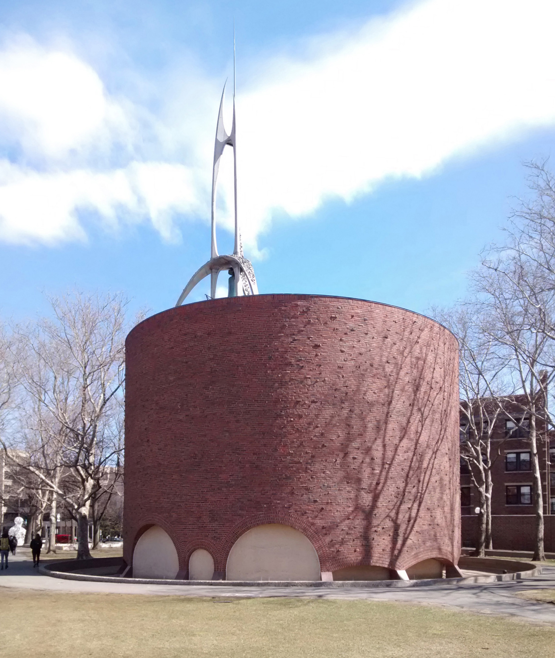 MIT Chapel, Eero Saarinen, Massachusetts Institute of Technology, Cambridge, Massachusetts, Apr. 2014